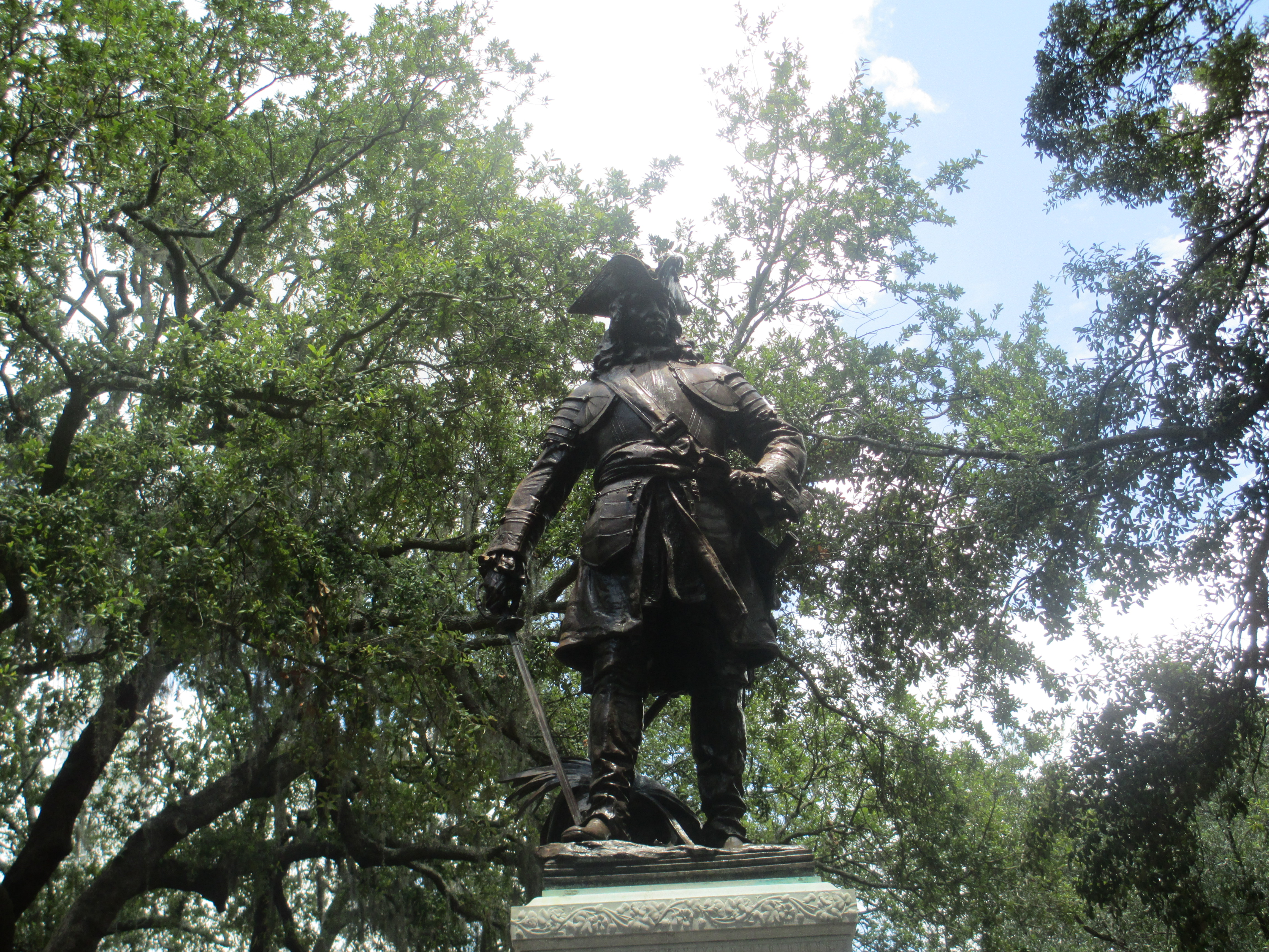 I took photo of Oglethorpe statue (1910) in Savannah's Chippewa Square, with Canon camera.